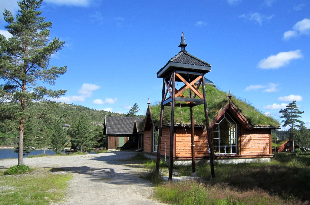 Gautefall church (Drangedal municipality, Norway)